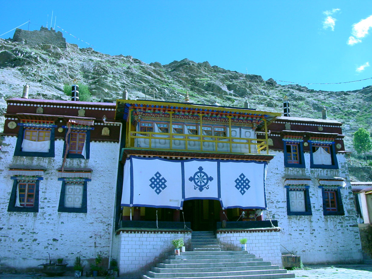 Sanga Monastery, Original text: "Author: Kosi Gramatikoff; Photography: Kosi Gramatikoff; Tibet (2005), Sanga (Sangha) Mongastery"